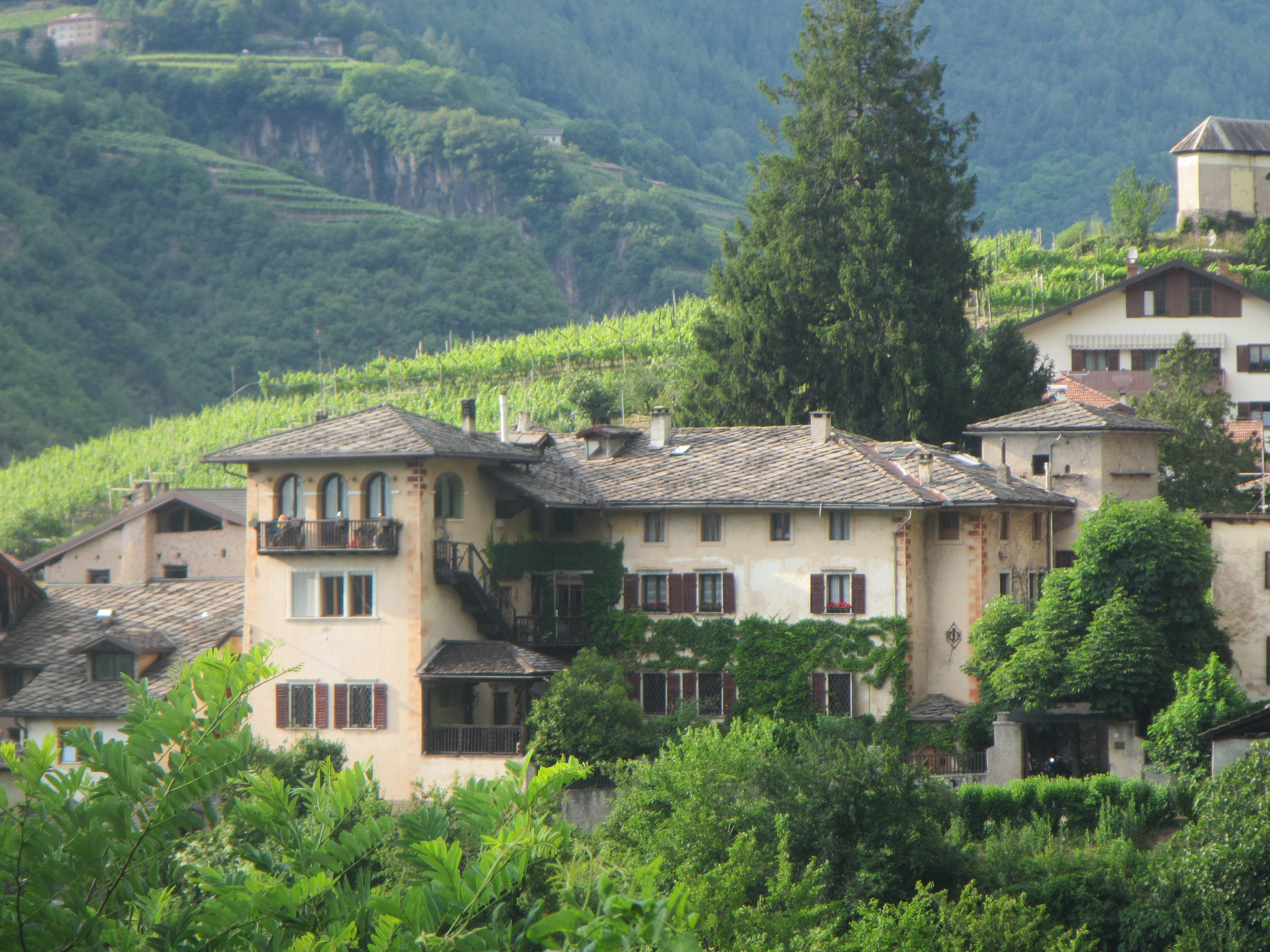 Piazzo, Segonzano - baronial palace